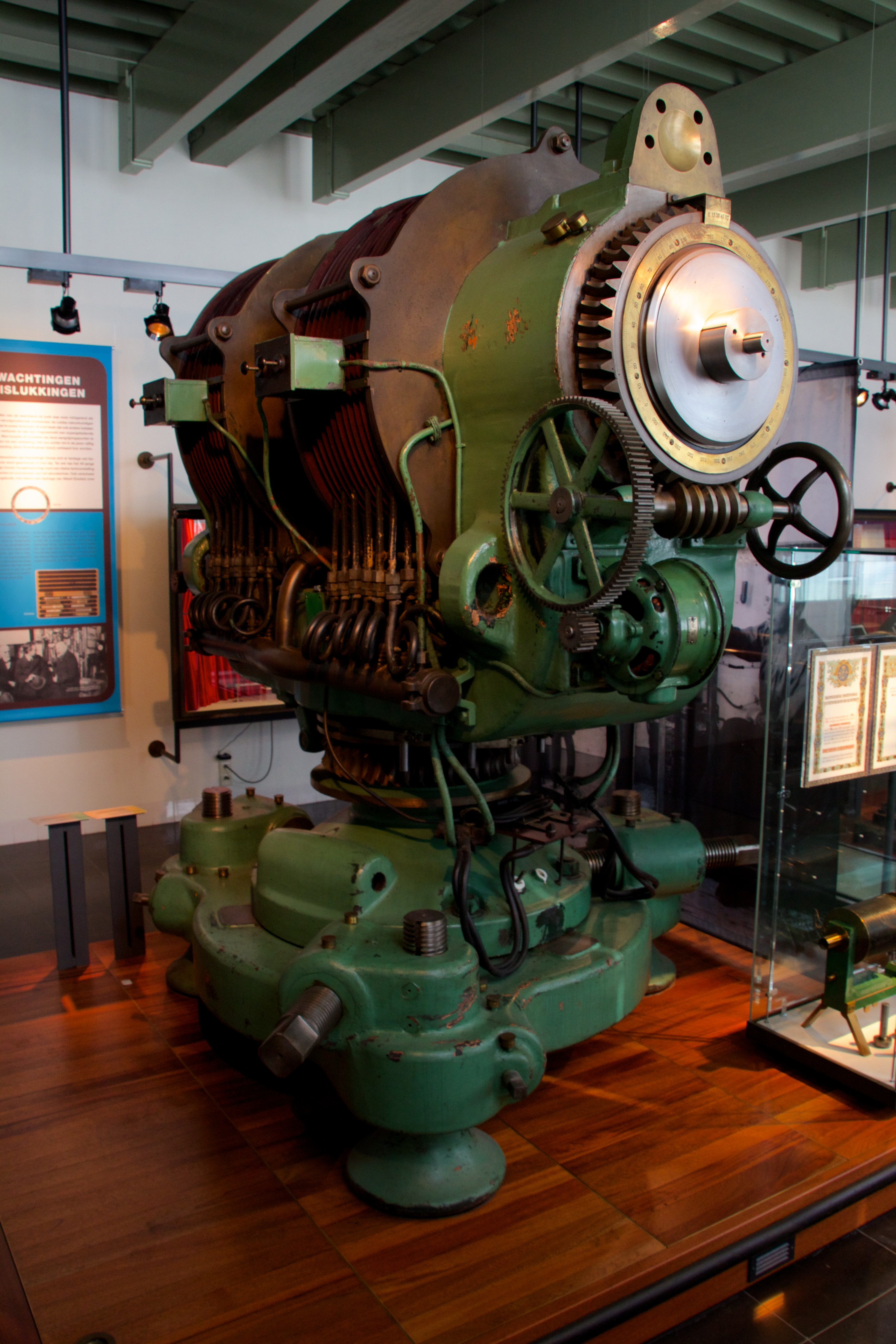 Weiss's electromagnet. Siemens & Halske, Berlin, 1924-1932, inv 9685. In the Museum Boerhaave Leiden.